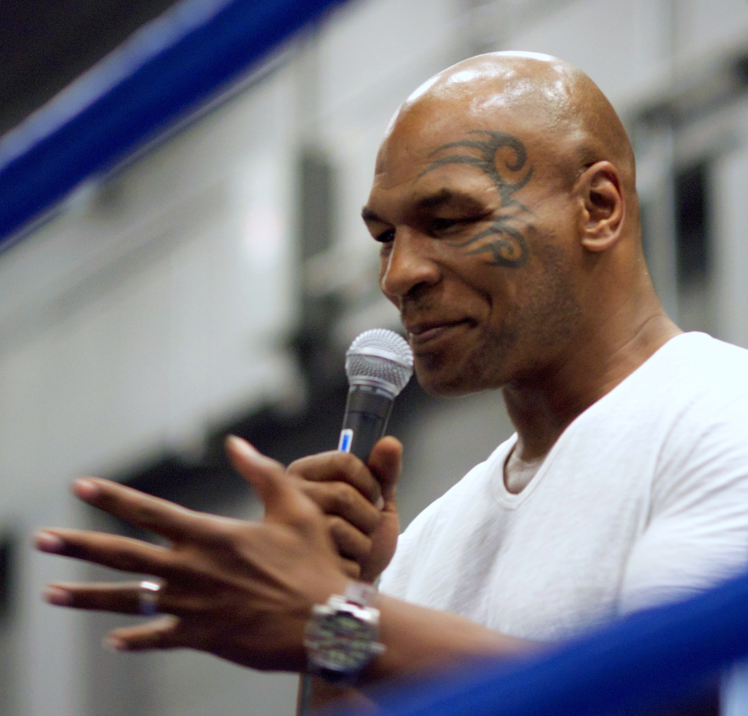 Mike Tyson at the South by Southwest Festival in Austin, Texas, United States.